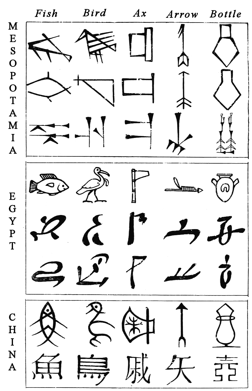 Comparative evolution of Cuneiform, Egyptian and Chinese characters